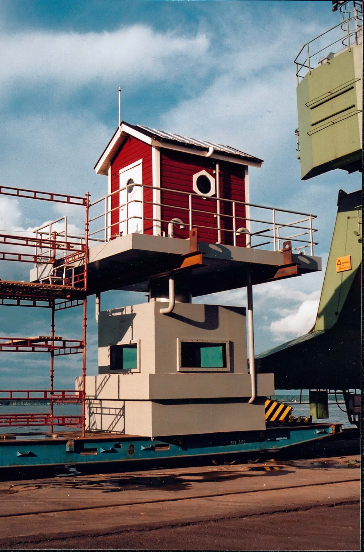 Found here. The link to it reads: "Upphovsrättsfri pressbild Bilden "väger" 216 k och är sparad i 72 ppi JPEG. Bilden är ca 40 cm bred så att den funkar att ändra till 300 ppi (offsettryck) och den blir då ca 10 cm bred eller till upplösning 170 ppi (tidningstryck)." Which would translate to "press picture free from copyright" and some technical information. Presumably, the photographer is Mikael Genberg.